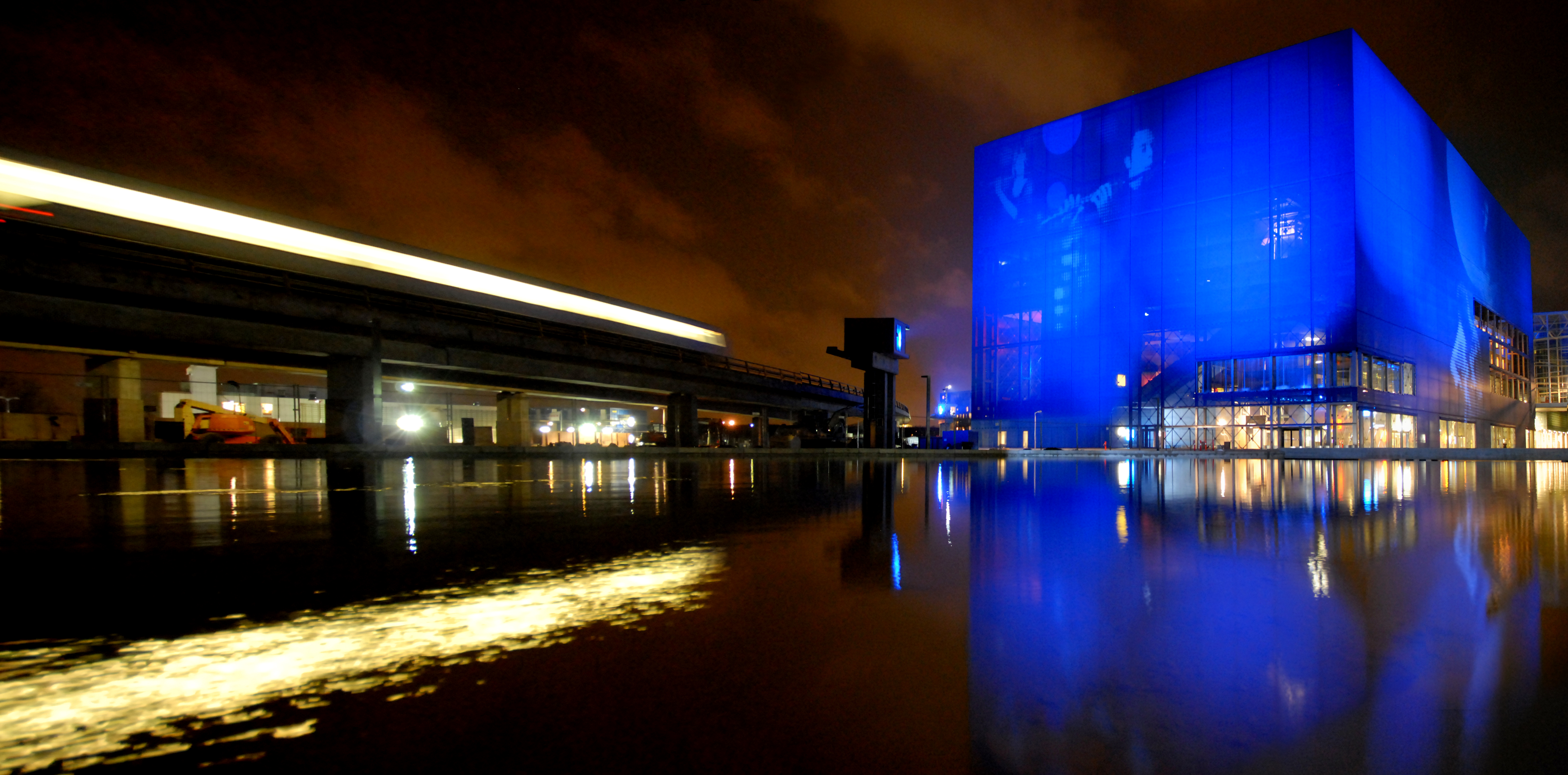 The Copenhagen Concert Hall the Ørestad district of Copenhagen, Denmark. Designed by Jean Nouvel